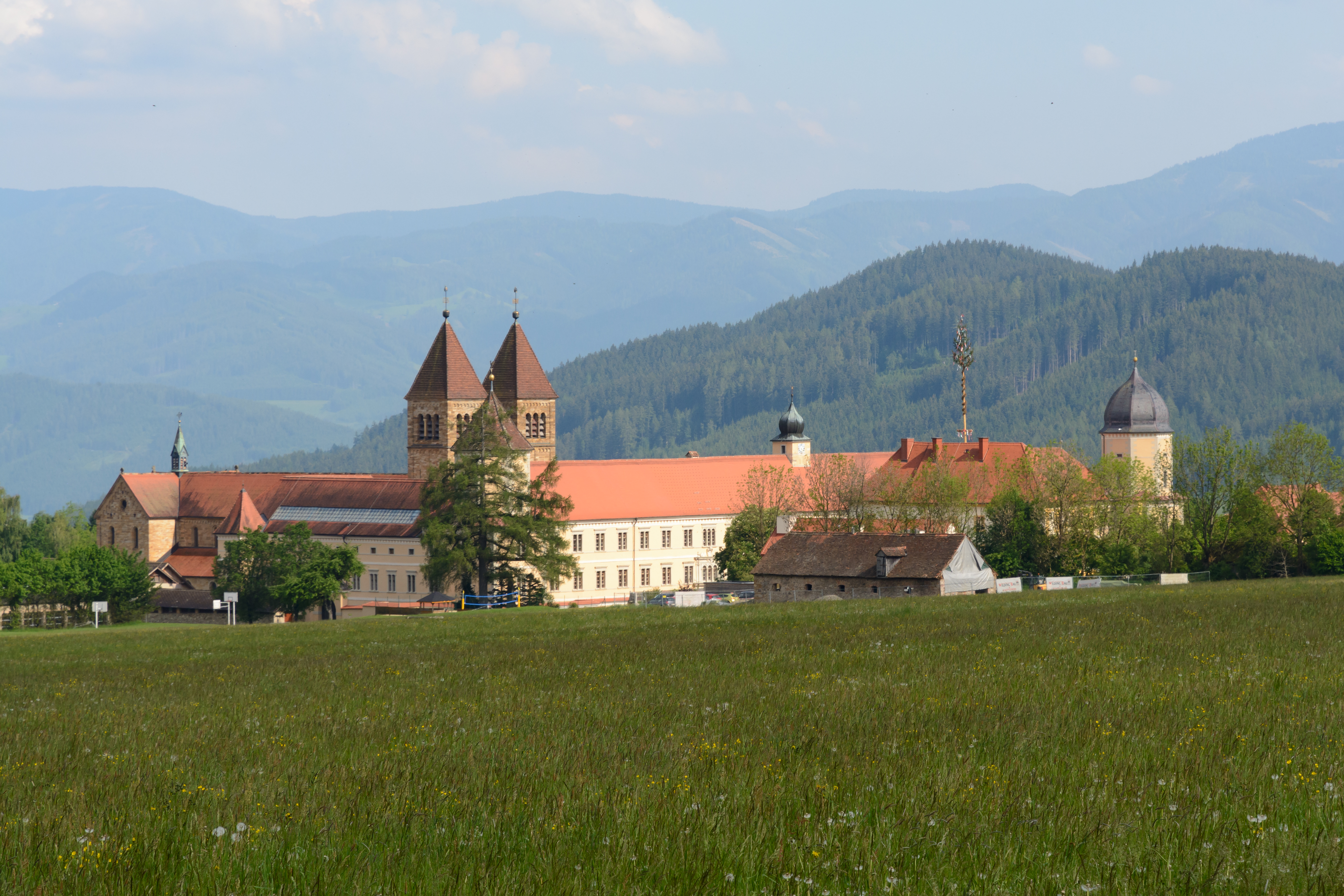 Seckau Abbey, Styria, Austria